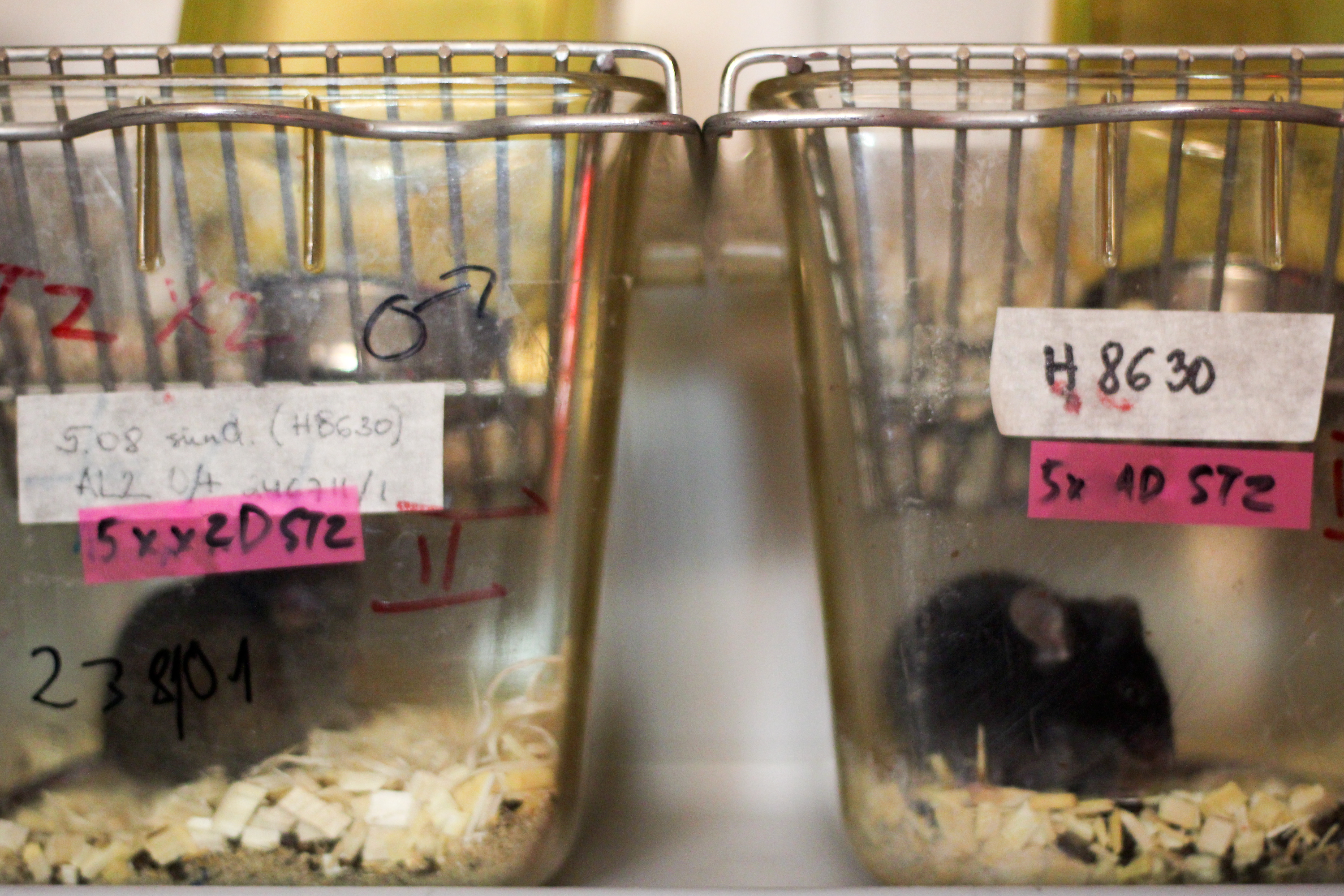 Lab mice in Biomedicum, Tartu University, Tartu, Estonia